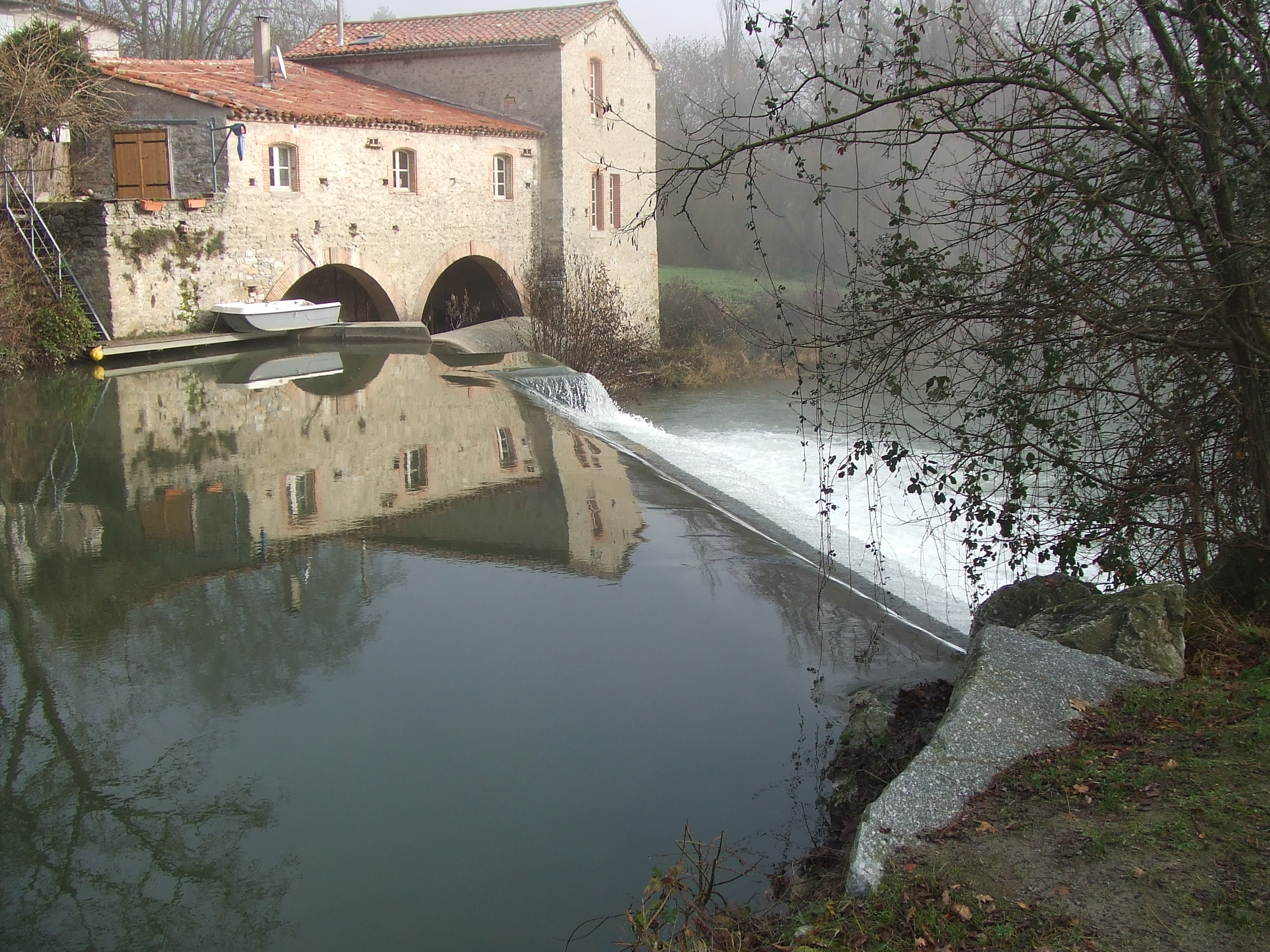 French river Le Sor (Tarn)